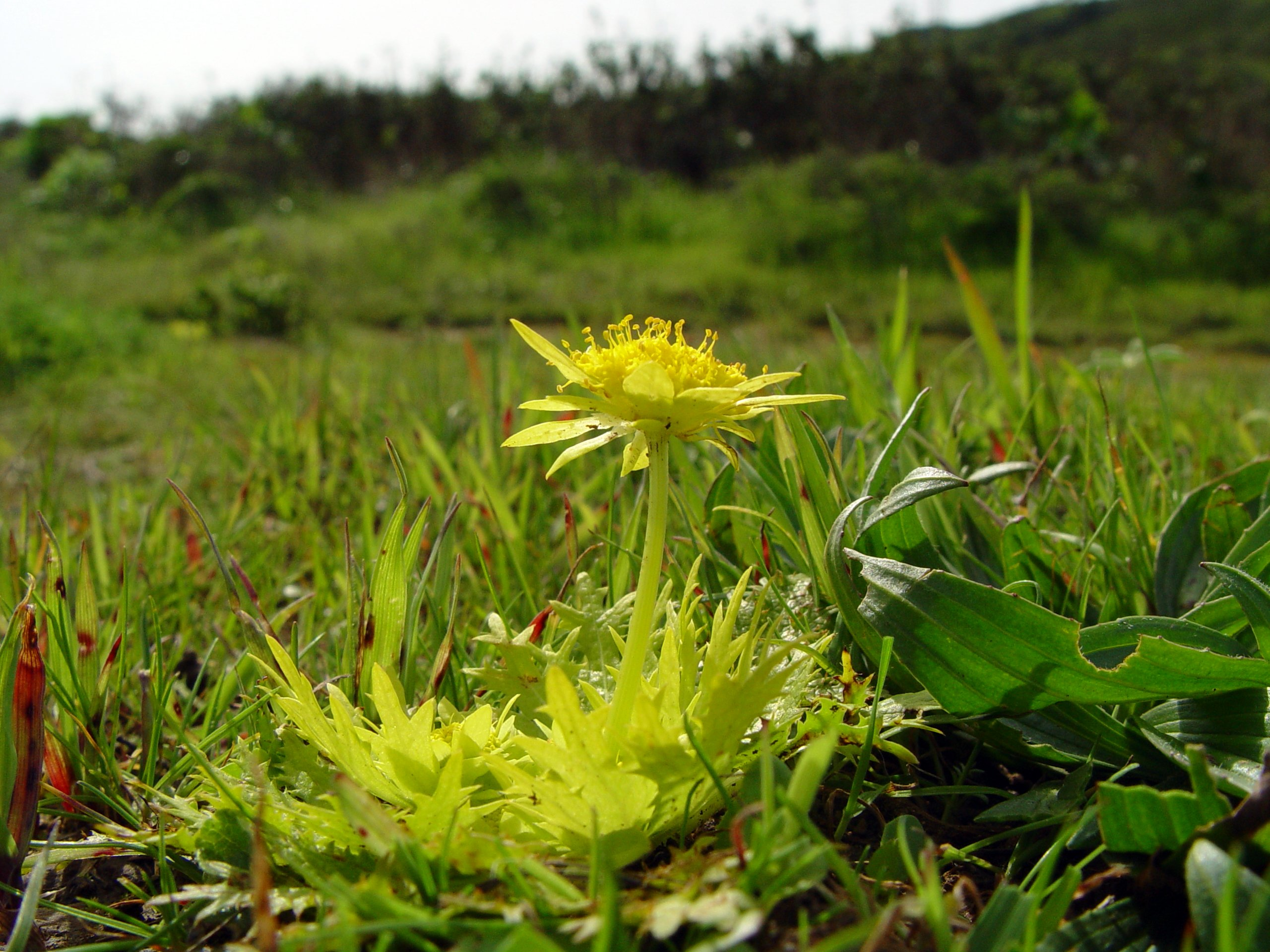 Footsteps-of-spring (Sanicula arctopoides) Family: Apiaceae (Umbelliferae) San Bruno Mountain San Mateo Co., CA